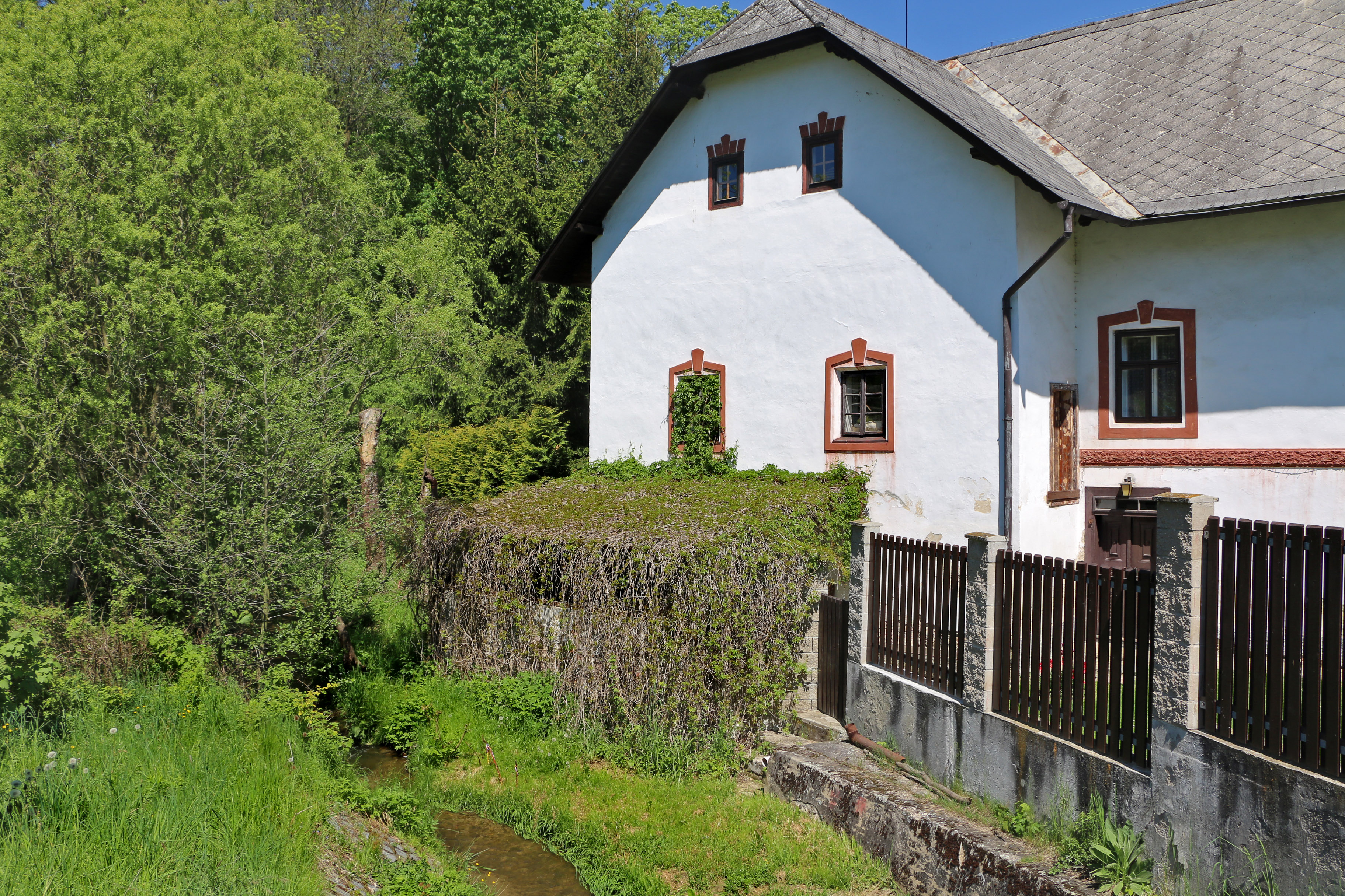 Millhouse in Petrovice, part of Miličín, Czech Republic.